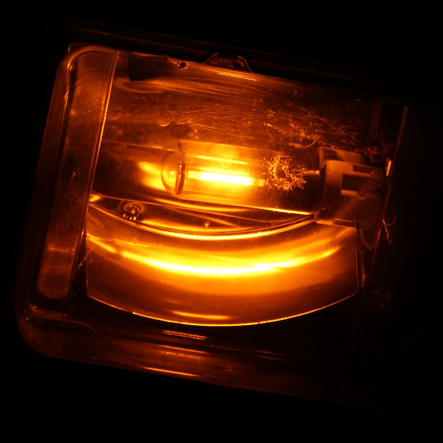 Sodium glows in a very specific yellow. A common application for this are sodium vapor lamps, which are often used as street lights, like the one shown here. Those spend relatively little energy, give a good contrast and are more compatible for nocturnal insects.